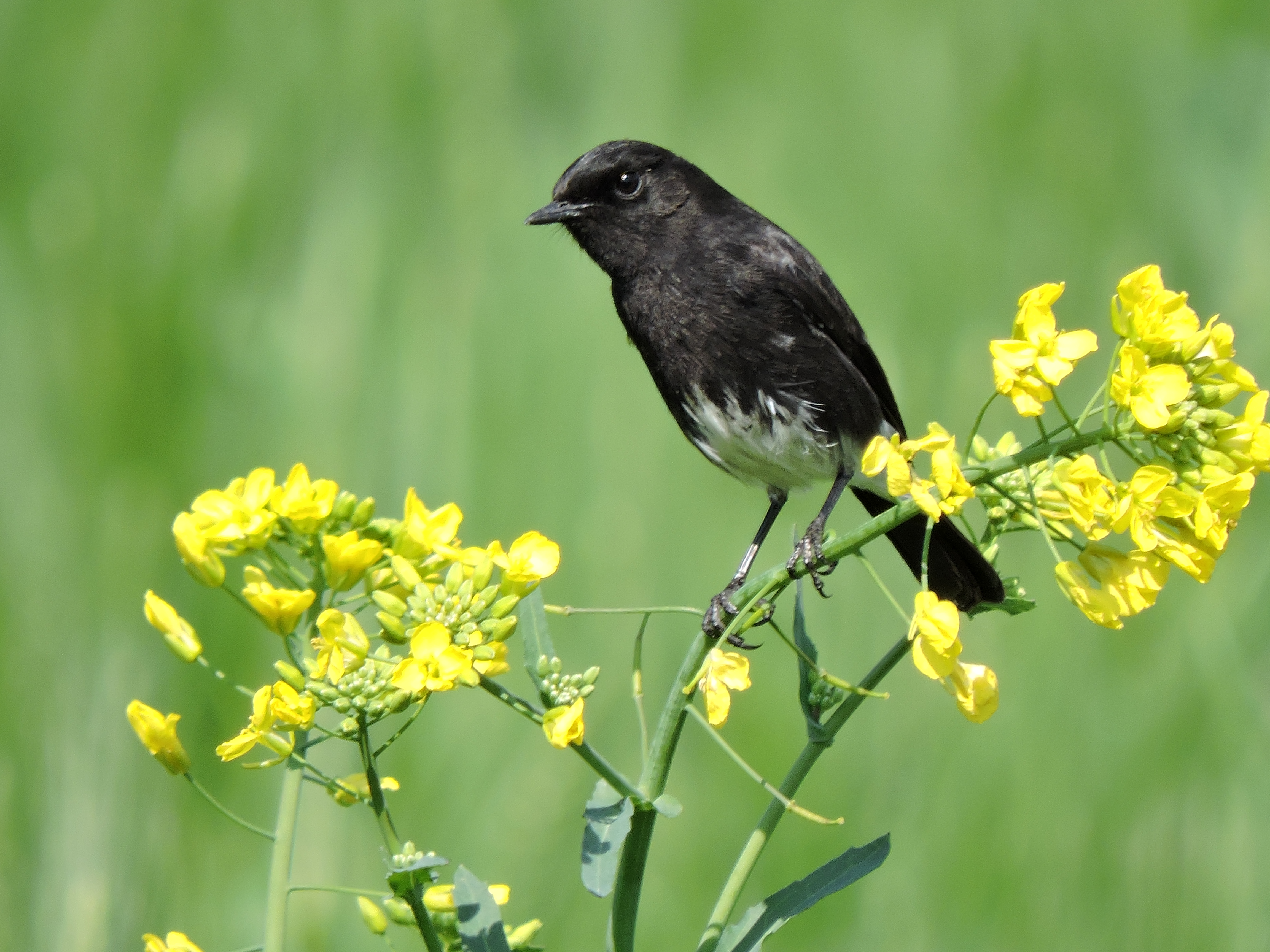 Pied bubirdssh chat,Saketarri, near Sukhna lake Chandigarh, India